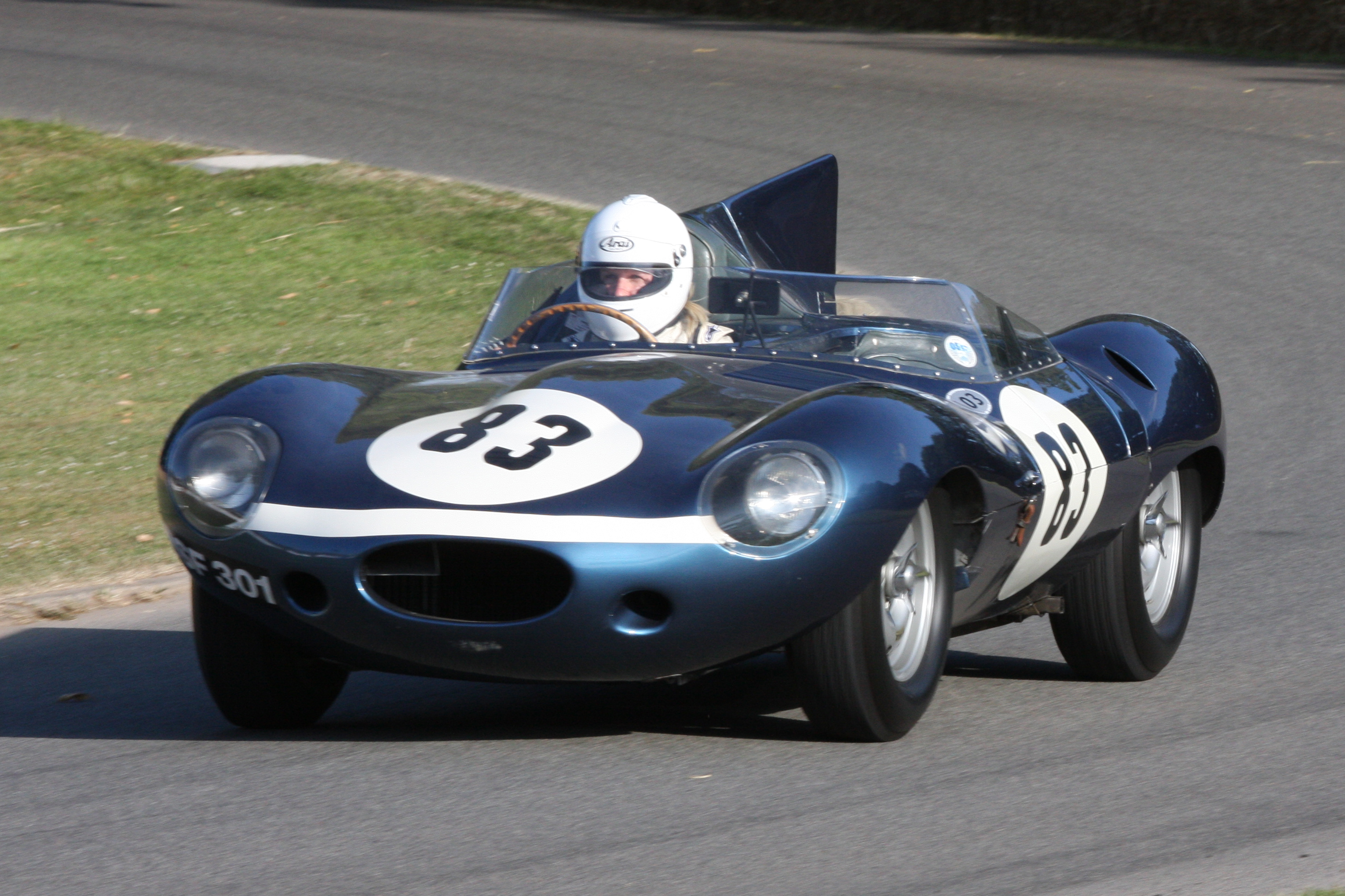 1956 Jaguar D-Type 'Long Nose' at Goodwood Festival of Speed 2009.